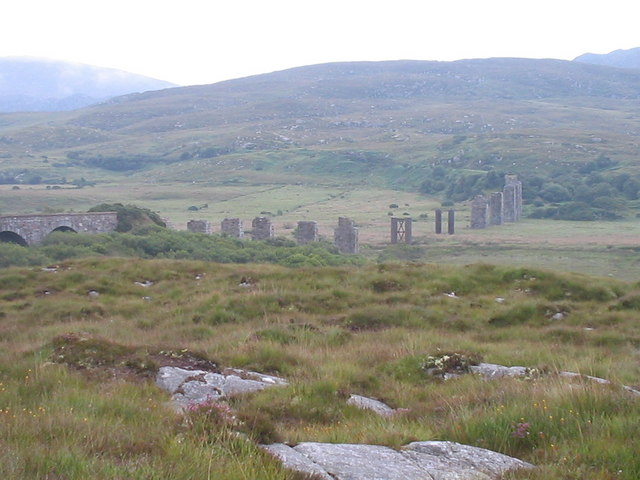 Remains of railway viaduct over the Owencarrow River The viaduct was built in 1903 for the Loch Swilly Railway linking Letterkenny and Burtonport. This was the scene of a serious accident on 31st January 1925 when a carriage was derailed by a storm, hitting the parapet and sending four passengers to their deaths. The line closed in 1941.